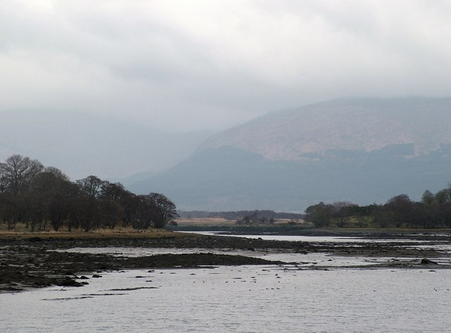 Crannog, Eriska The low mound in the channel between Eriska and the mainland is the remains of a crannog - a prehistoric stockade or dwelling on an islet. The former ford to the island is visible beyond on this low tide picture.